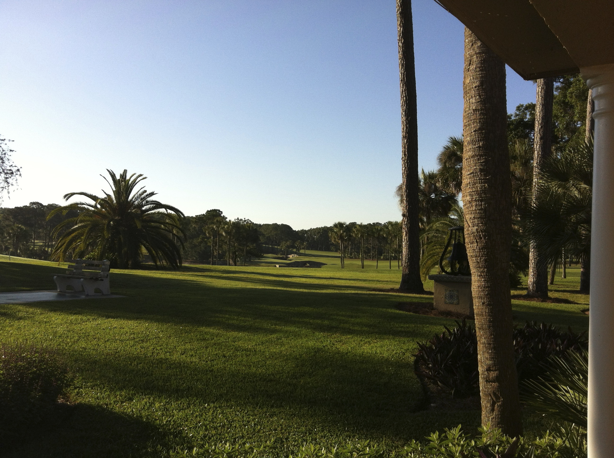 El Campeon Golf Course, Mission Inn Resort & Club, Howey-in-the-Hills, Florida